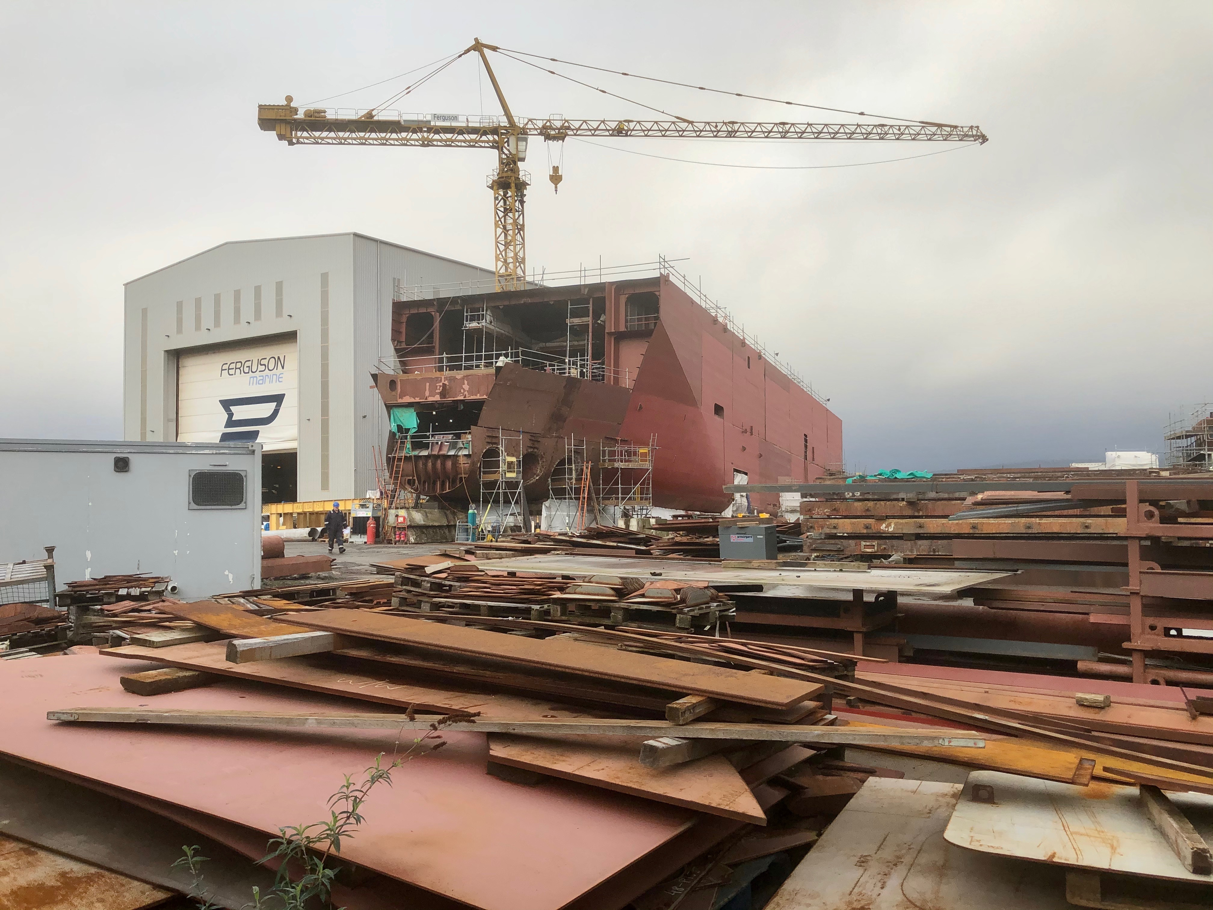 Hull 802 ferry under(much delayed) construction at the shipyard of Ferguson Marine Engineering Ltd.. The ship was ordered by Caledonian Maritime Assets and is to be operated by Caledonian MacBrayne.